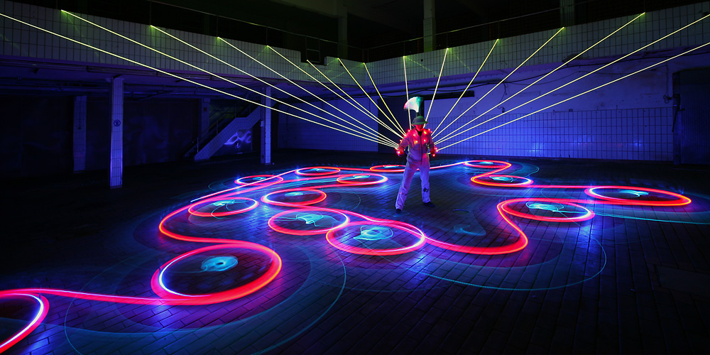 Light Art Performance Photography - Old Dairy - Schwanewede